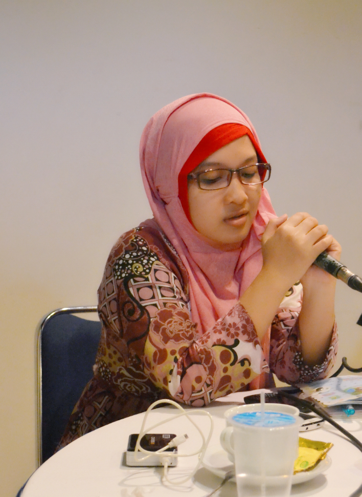 Yoana Dianika, talk show-Kemang